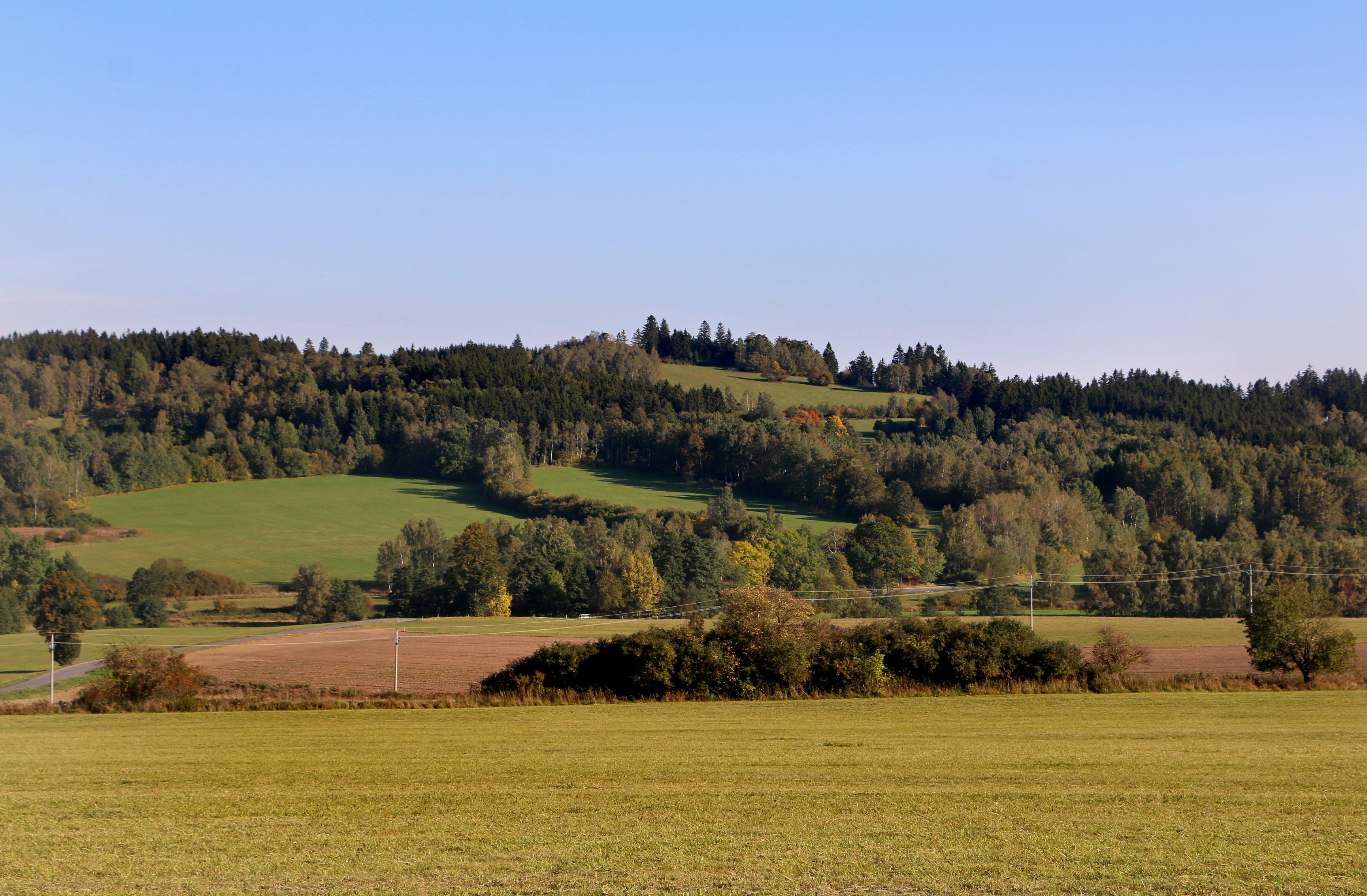 Havlův hill south of Batelov, Czech Republic.